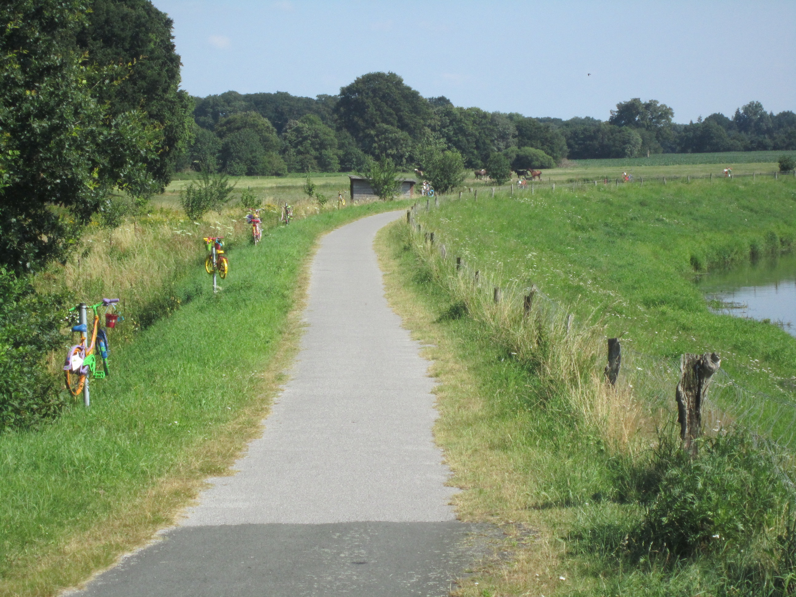 "Löninger Kunstmeile 2013": Bicycle art competition along the "Hase-Ems-Tour" (far distance bikeway) in Löningen